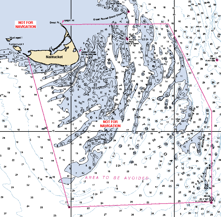 Detail of NOAA chart 12300 showing area of Nantucket Shoals. Edited by Diiscool for use on Commons.